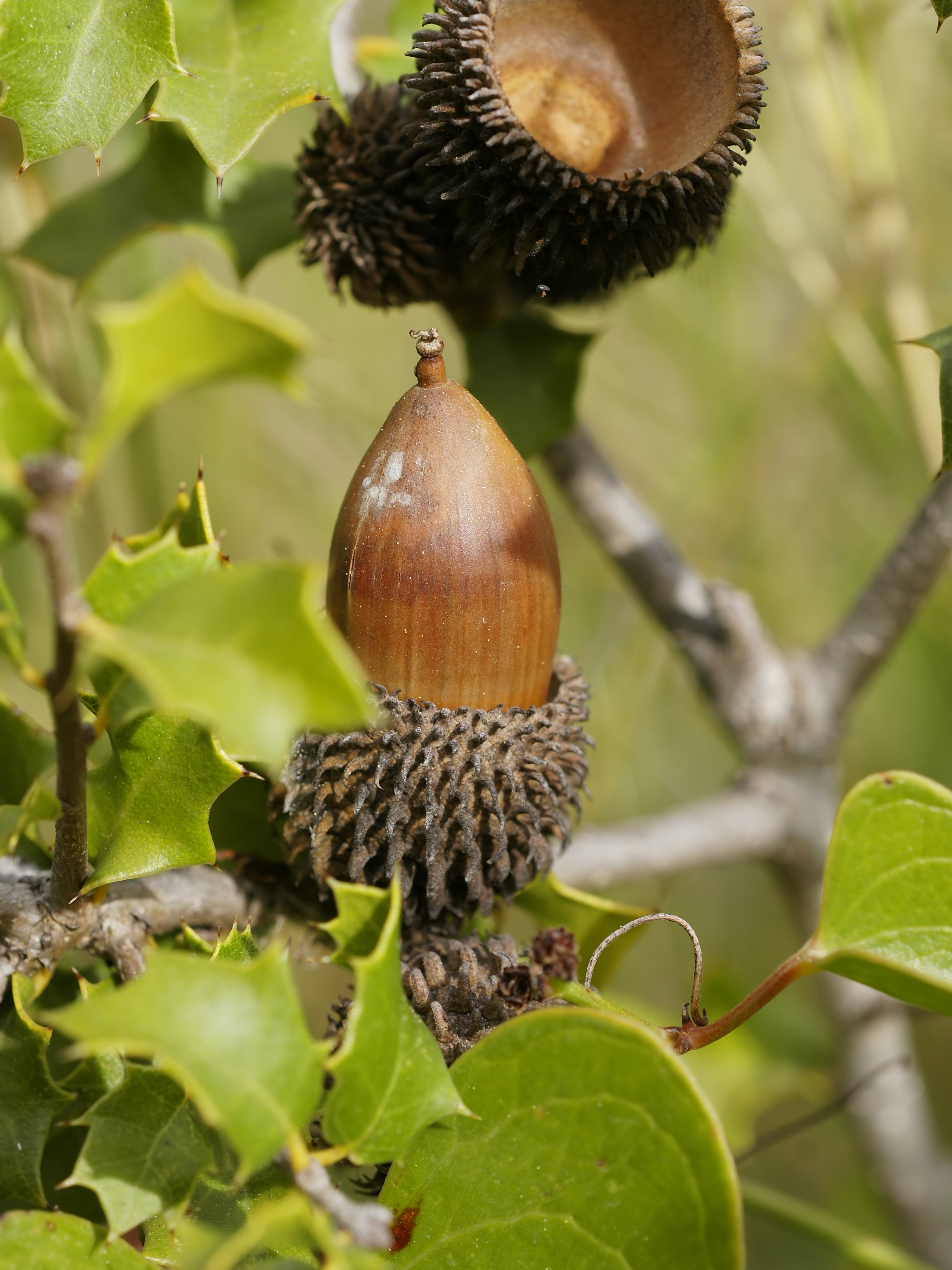 Plant near el Perelló, Catalonia, Spain